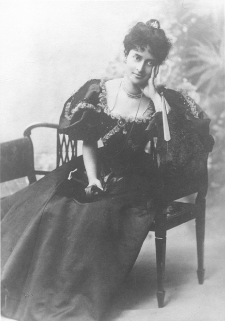 Princess Kaiulani, photograph taken in Jersey. She visited Jersey during spring 1892, winter 1894, summer 1896, and summer 1897.